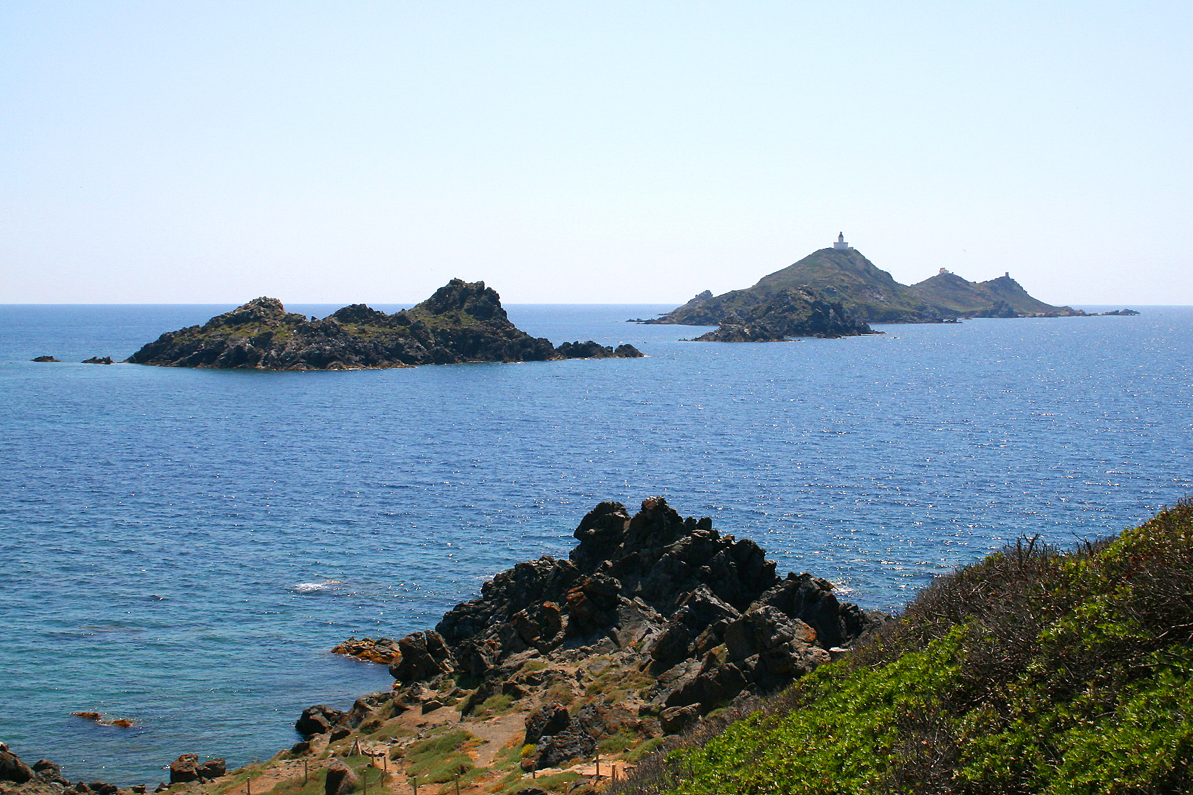 Ajaccio France, the Archipel of the Sanguinaires. Corsu: Aiacciu Francia (Corsica suttana), Isuli Sanguinari.